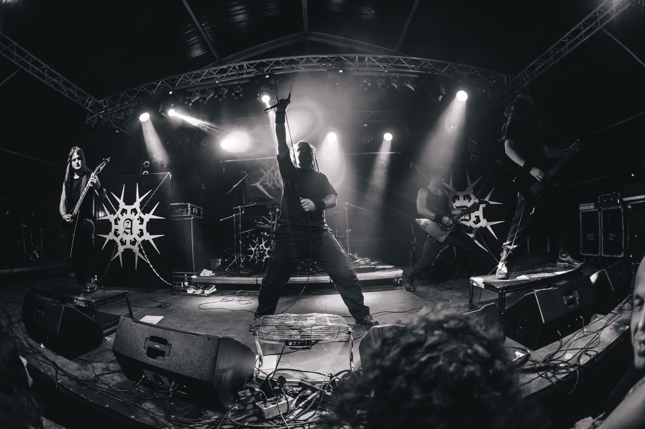 Angerseed playing live on Rockmaraton festival in 2019. Photo: Kristóf Lányi